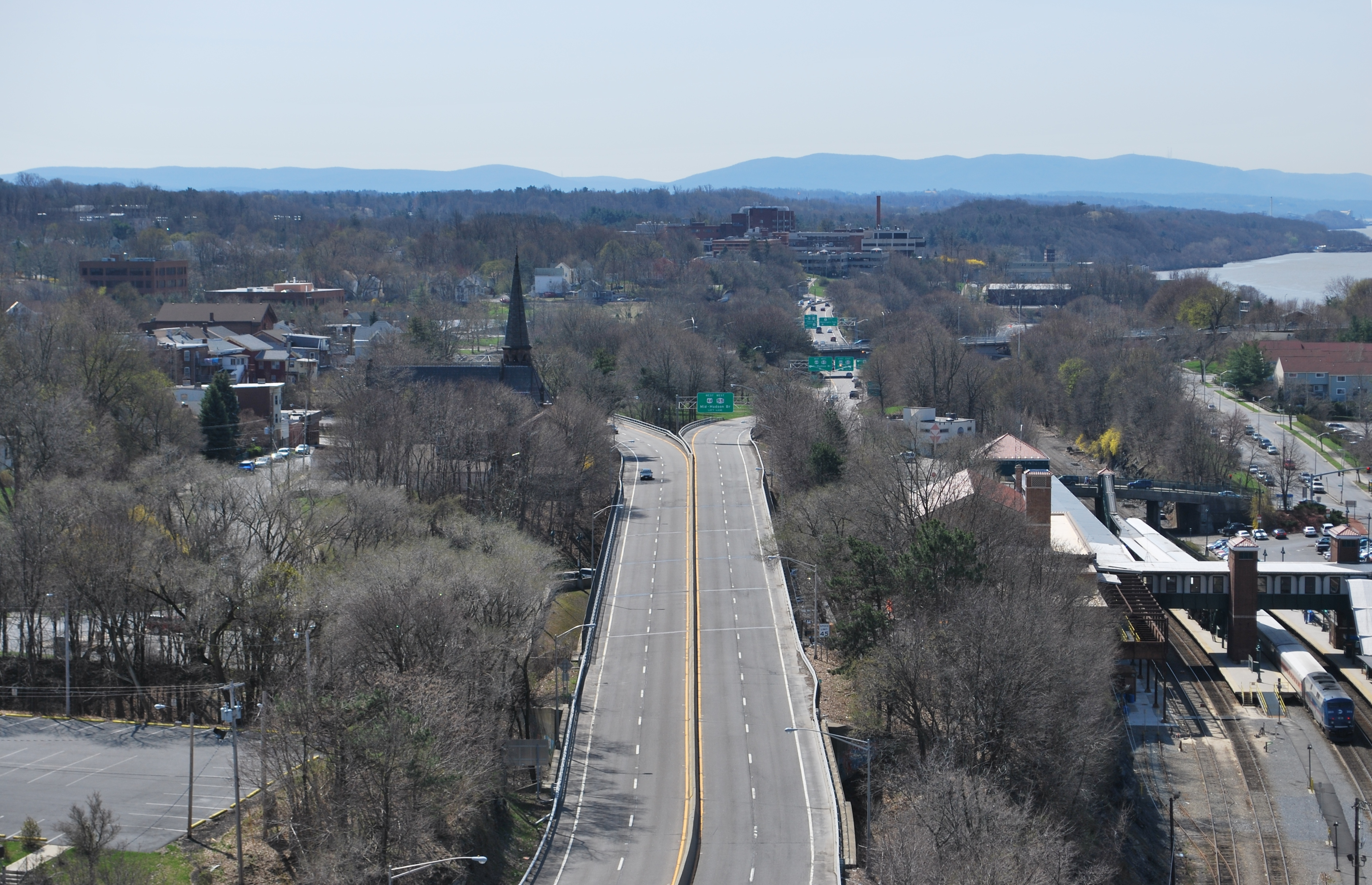 U.S. Route 9 in New York and surrounding city of Poughkeepsie, New York as seen from the Walkway Over the Hudson, a pedestrian bridge spanning the Hudson River.